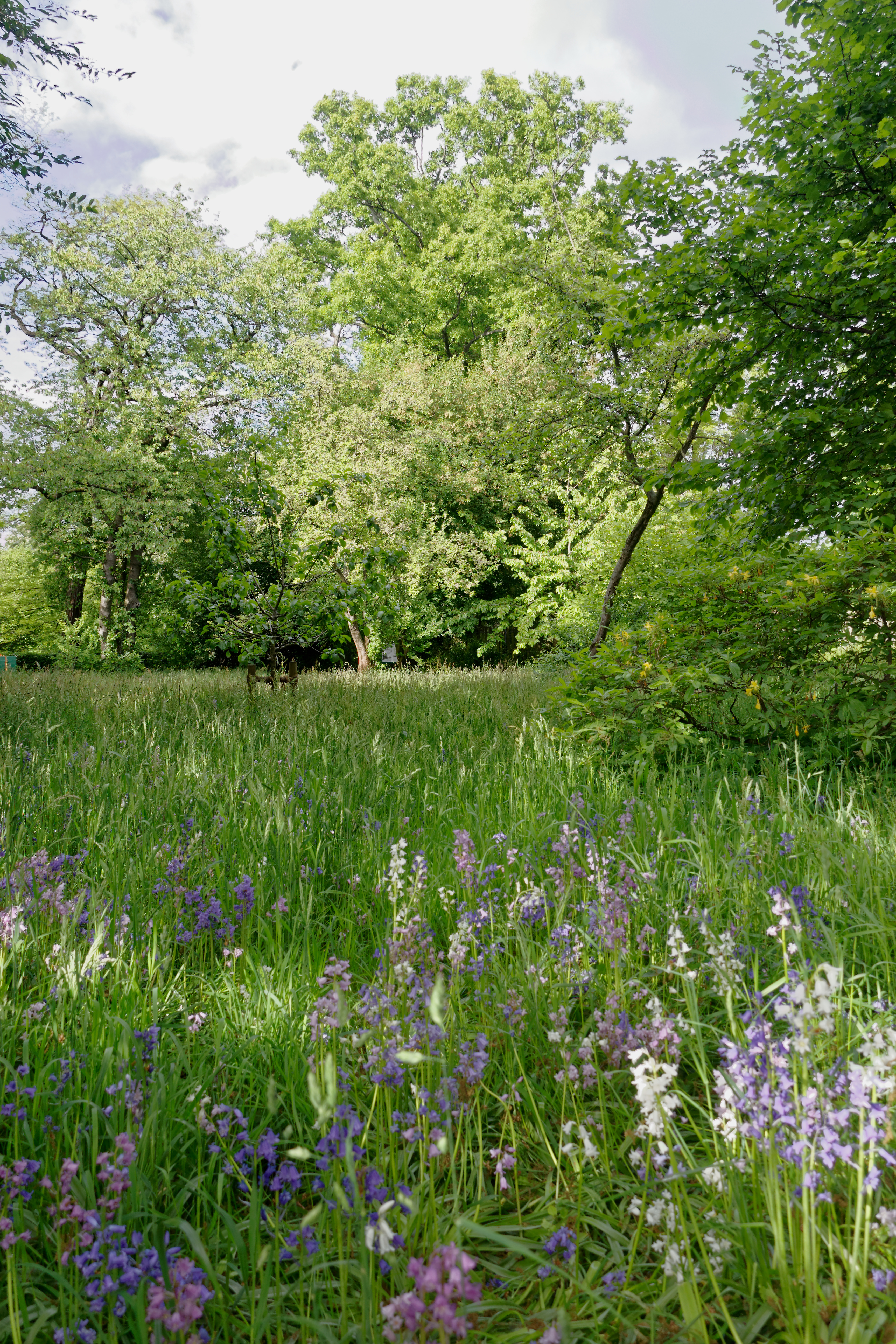 Hamburg-Eppendorf, Garden de l'Aigle